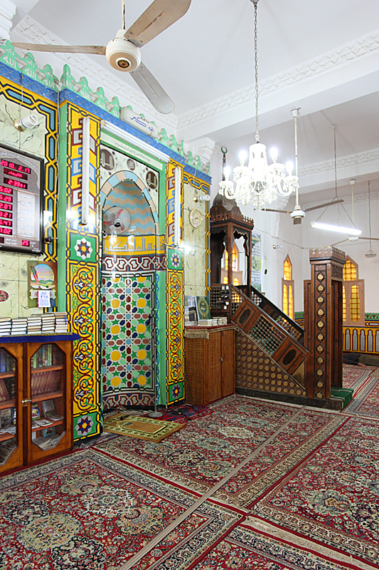 Mihrab and minbar of the el-Farshuti Mosque, Sohag, Egypt